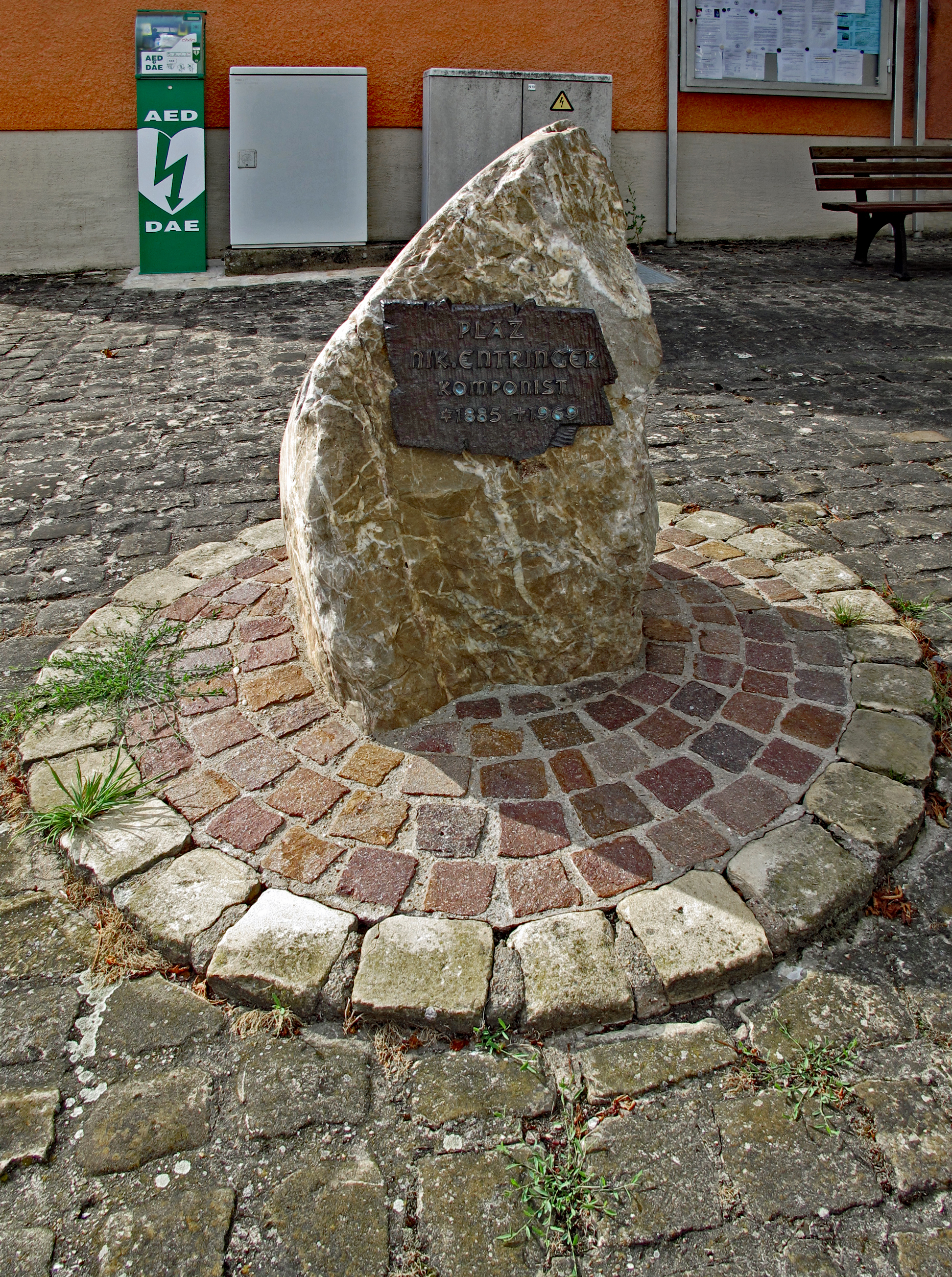 Memorial in Wormeldange-Haut, Luxembourg, for Nik Entringer